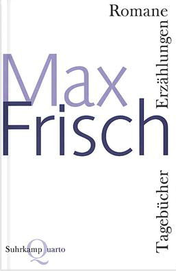 Book cover of Max Frisch, Romane Erzaehlungen Tagebuecher